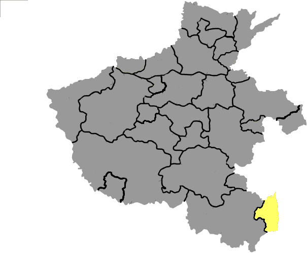 Location of Gushi county in Henan province, China